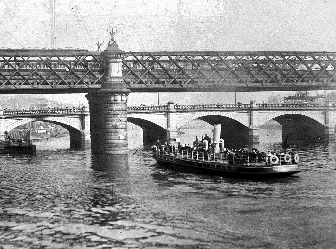 First Caledonian Railway Bridge, taken before the opening of the present bridge in 1905.